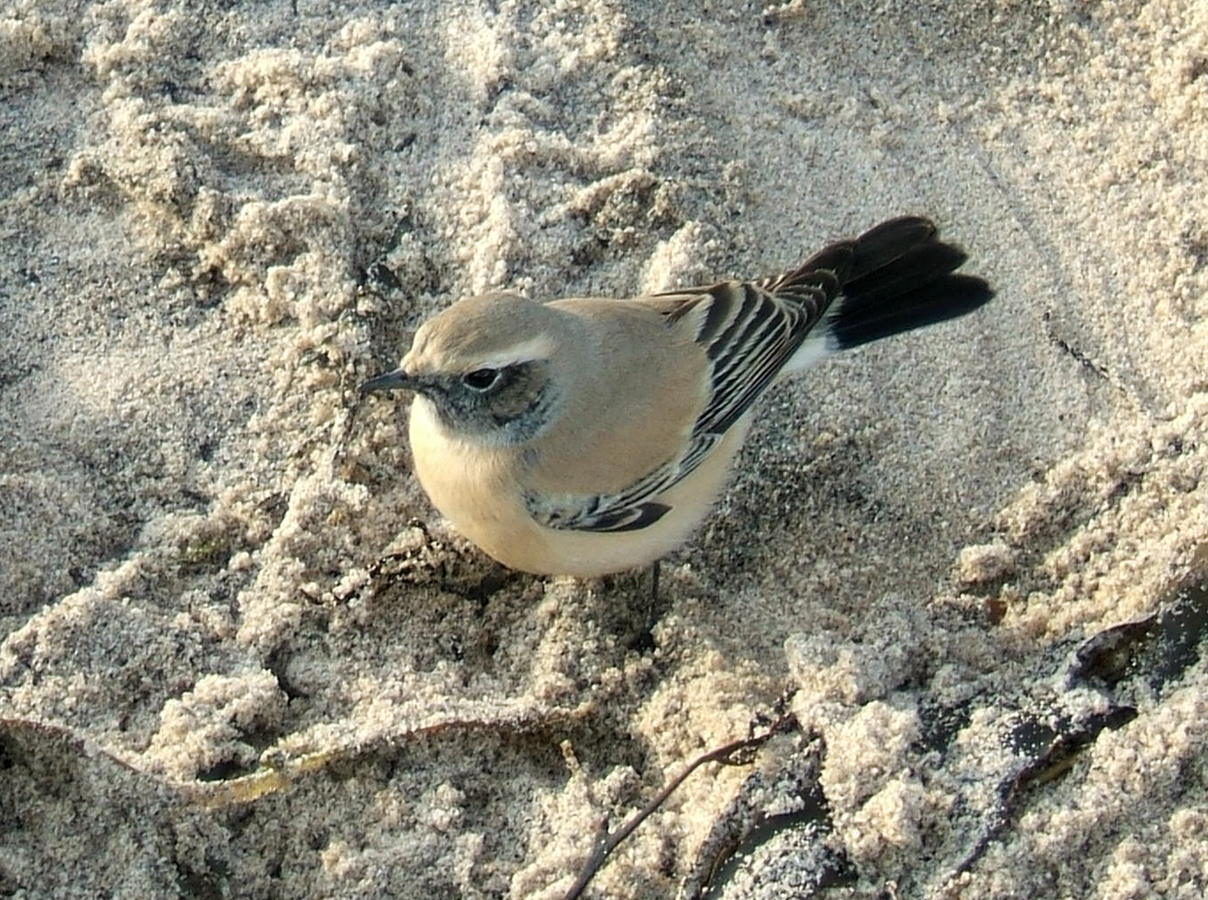 Desert Wheatear Oenanthe deserti, first-winter male. Newbiggin, Northumberland.